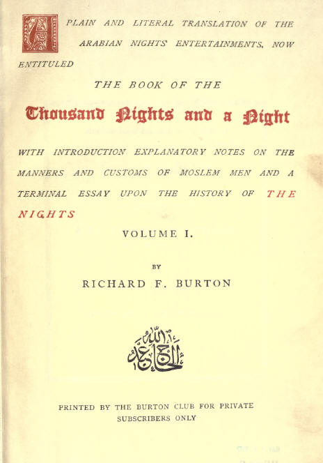 Title page of "A Plain and Literal Translation of the Arabian Nights' Entertainments, Now Entituled The Book of The Thousand Nights and a Night." Translated and edited by Richard Francis Burton. (1885)